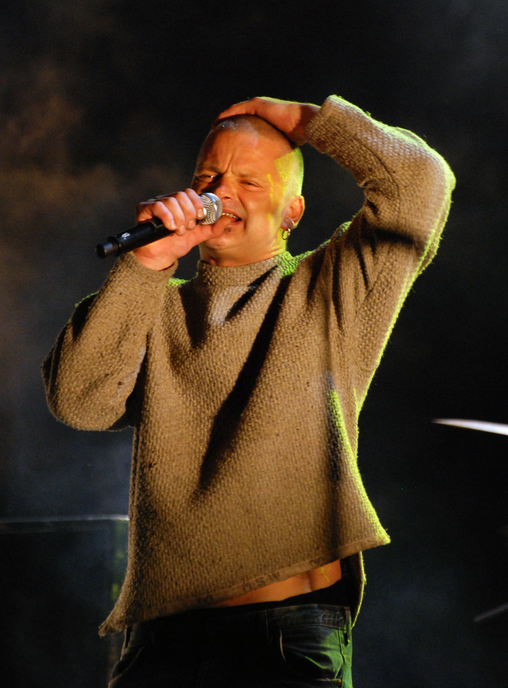 Per Øivind 'Prepple' Houmb of DumDum Boys live at Strandgateparken in Hamar, Hedmark, Norway.